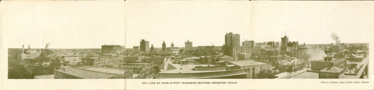 Houston Sky Line Business District